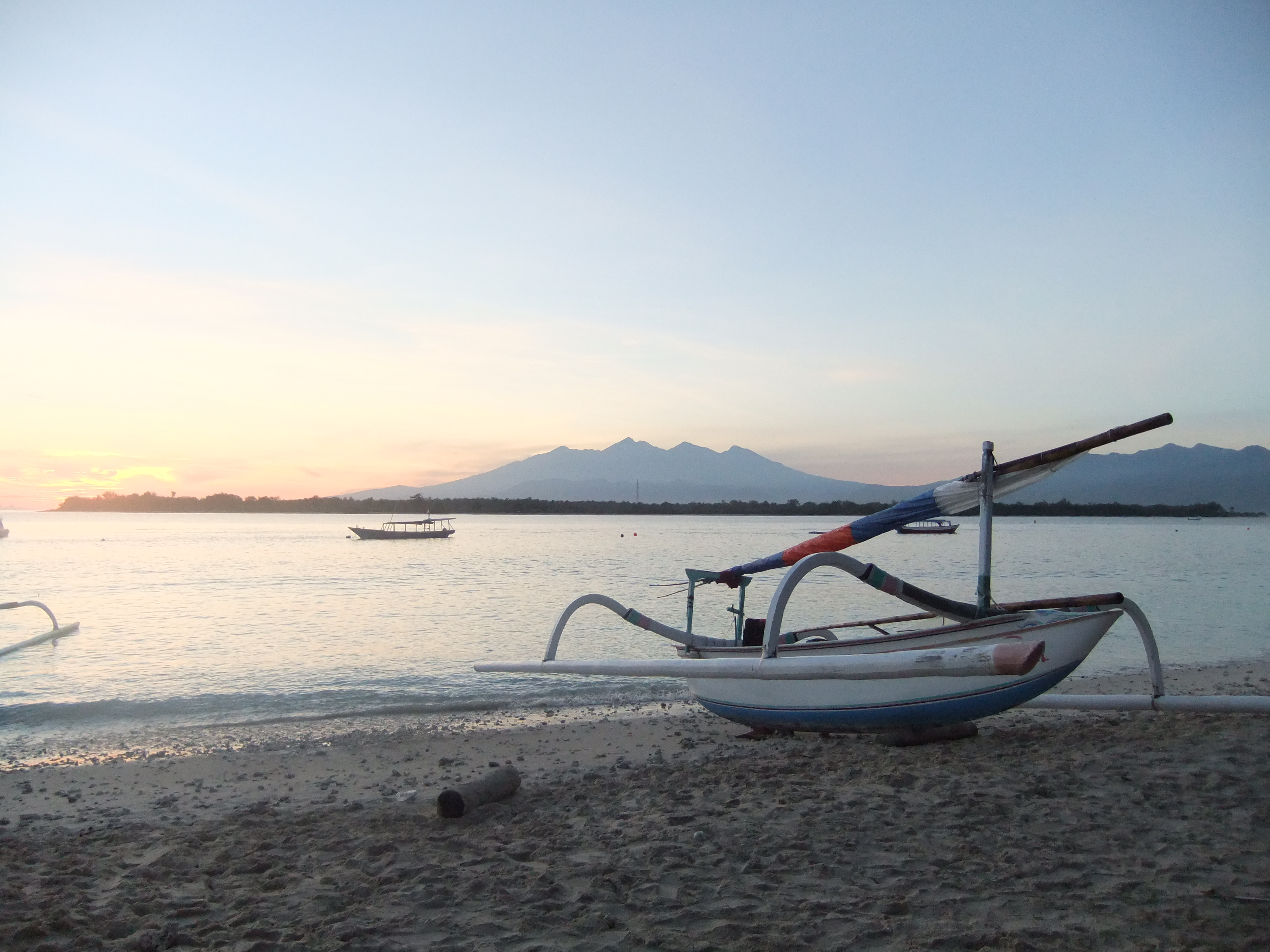 Sunrise at Gili Trawangan